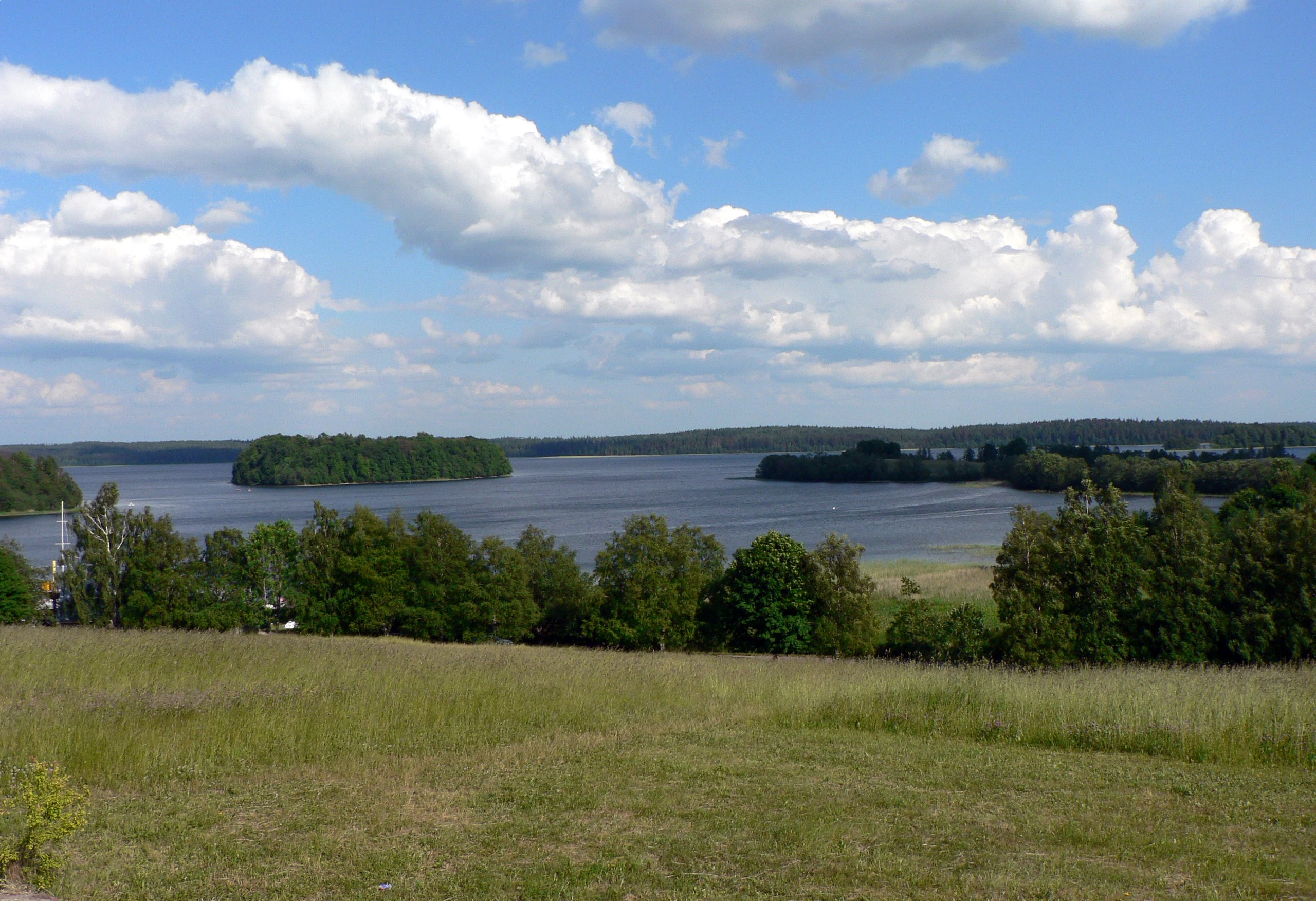 Plateliai lake (seen from Plateliai), Lithuania Author: Wojsyl, 2005